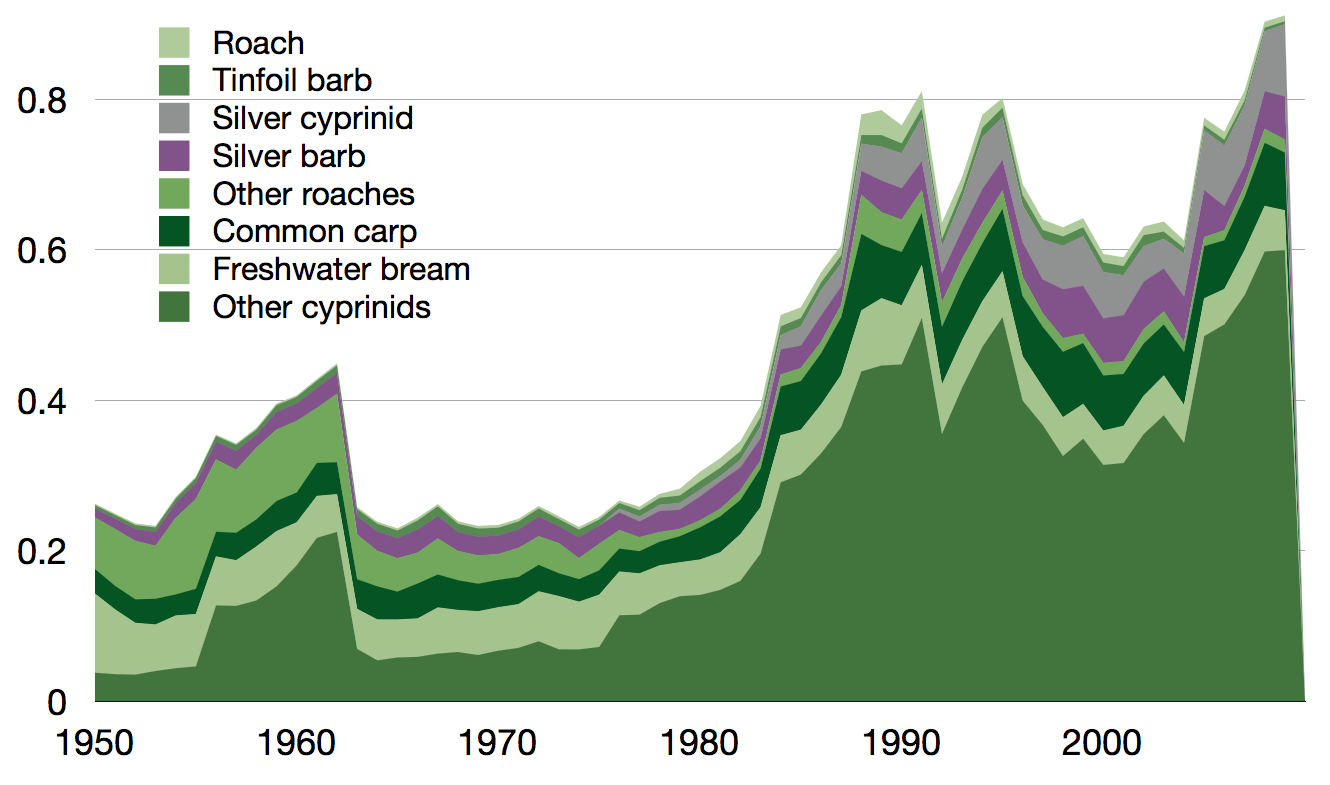 Wild capture of cyprinids by species in million tonnes, 1950–2009, as reported by the FAO. Based on data sourced from the FishStat database